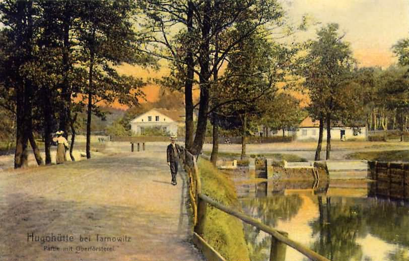 Hugohütte bei Tarnowitz - Partie mit Oberförsterei